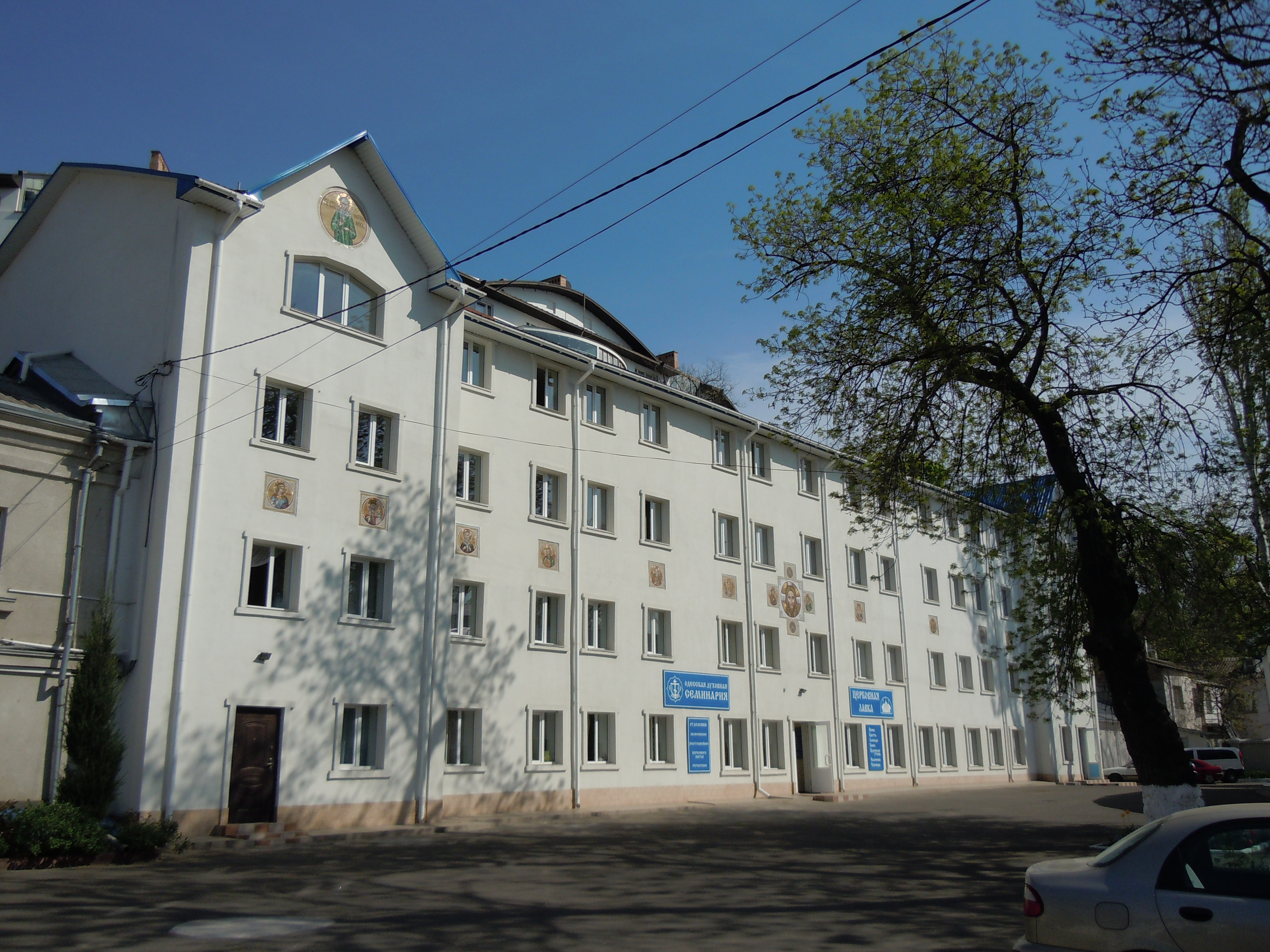 The building of the Odessa Theological Seminary in the Saint Michael Monastery, Odessa, Ukraine